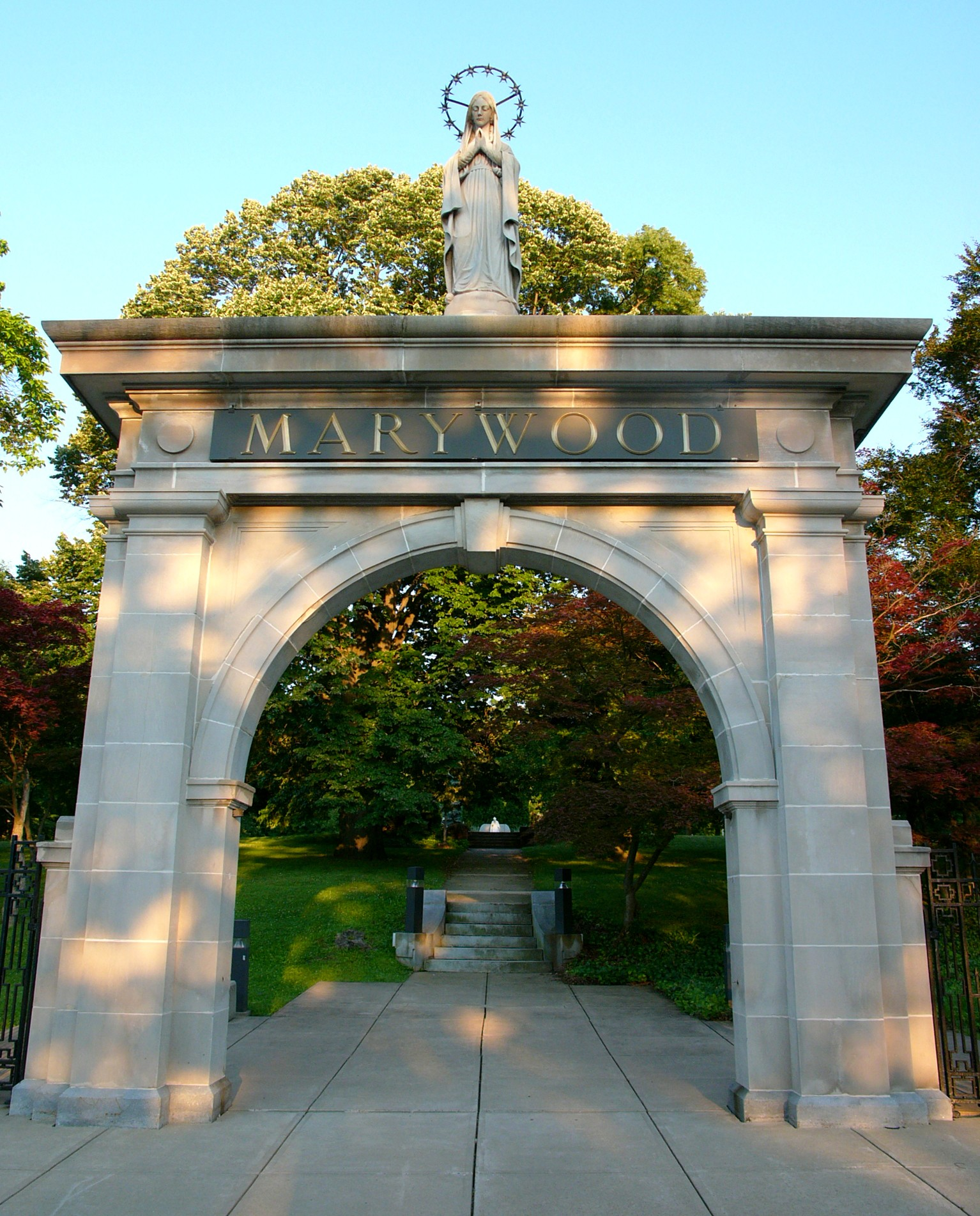 The Memorial Arch, built in 1902, originally held the inscription "Mt. St. Mary's" and marked the entrance to the original Motherhouse, which was the location of Mt. St. Mary's seminary. Even though the Motherhouse was destroyed by fire in 1971, the arch still stands as the welcoming landmark at the entrance of the campus.